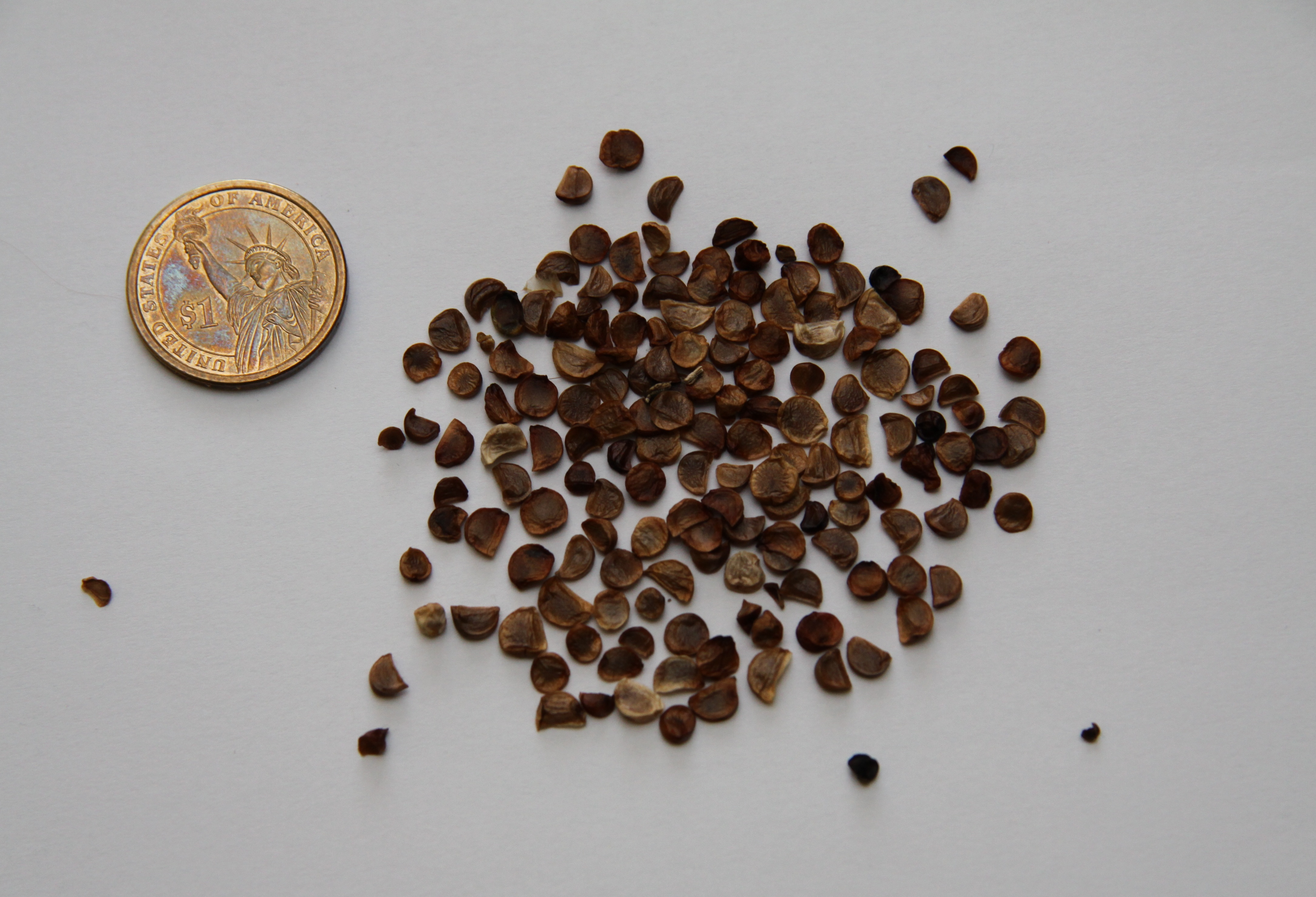 Seeds of Iris sibirica